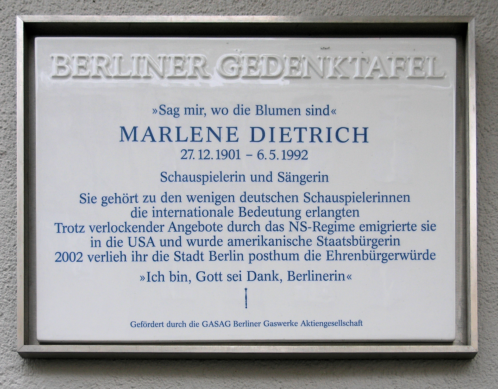 Berlin memorial plaque, Marlene Dietrich, Leberstraße 65, Berlin-Schöneberg, Germany